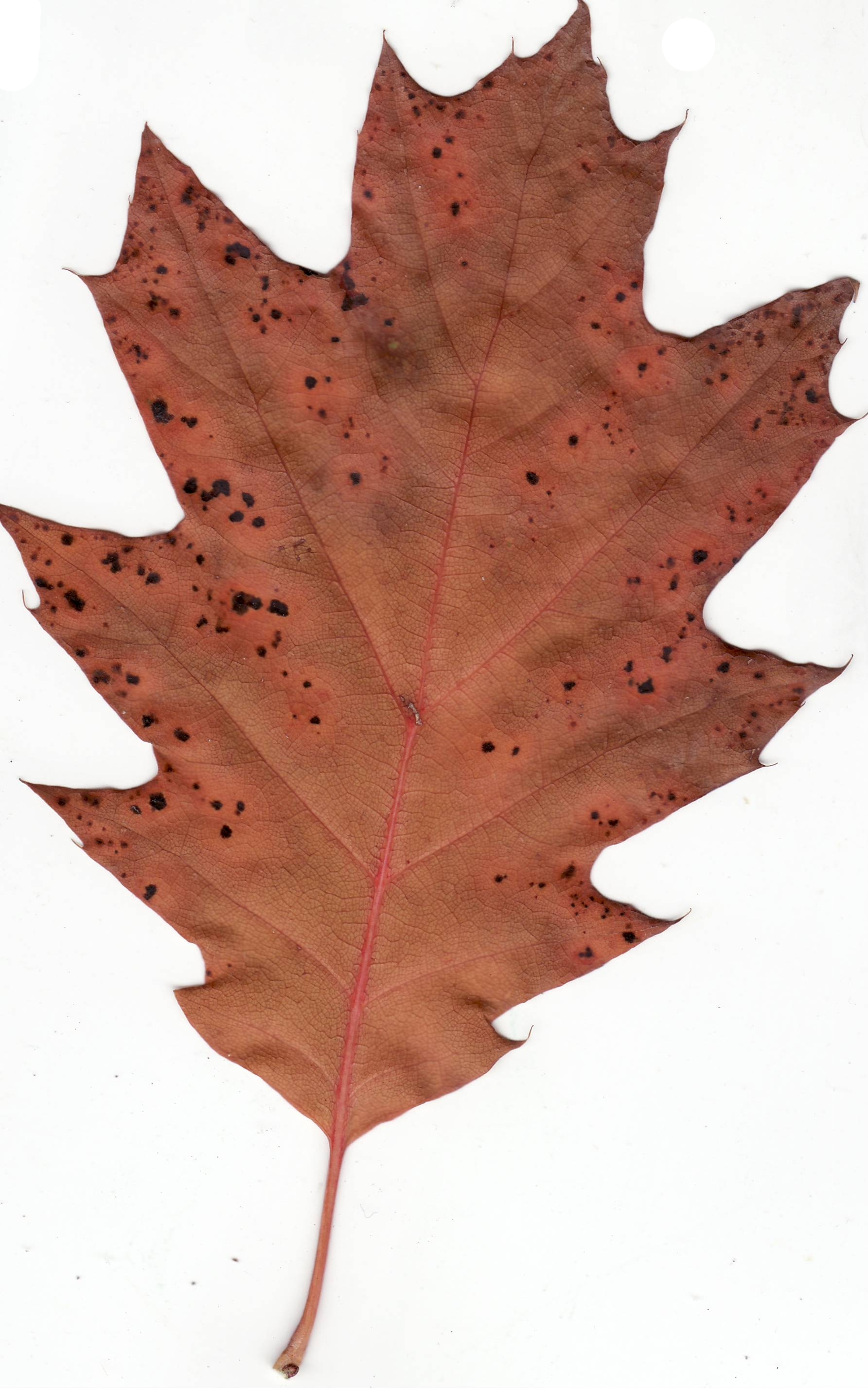 Scan of a leaf of a Red Oak (Quercus rubra L.) changing colors during autumn. The leaf was obtained on the campus of Brigham Young University.